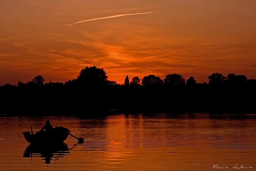 Gluszynskie lake